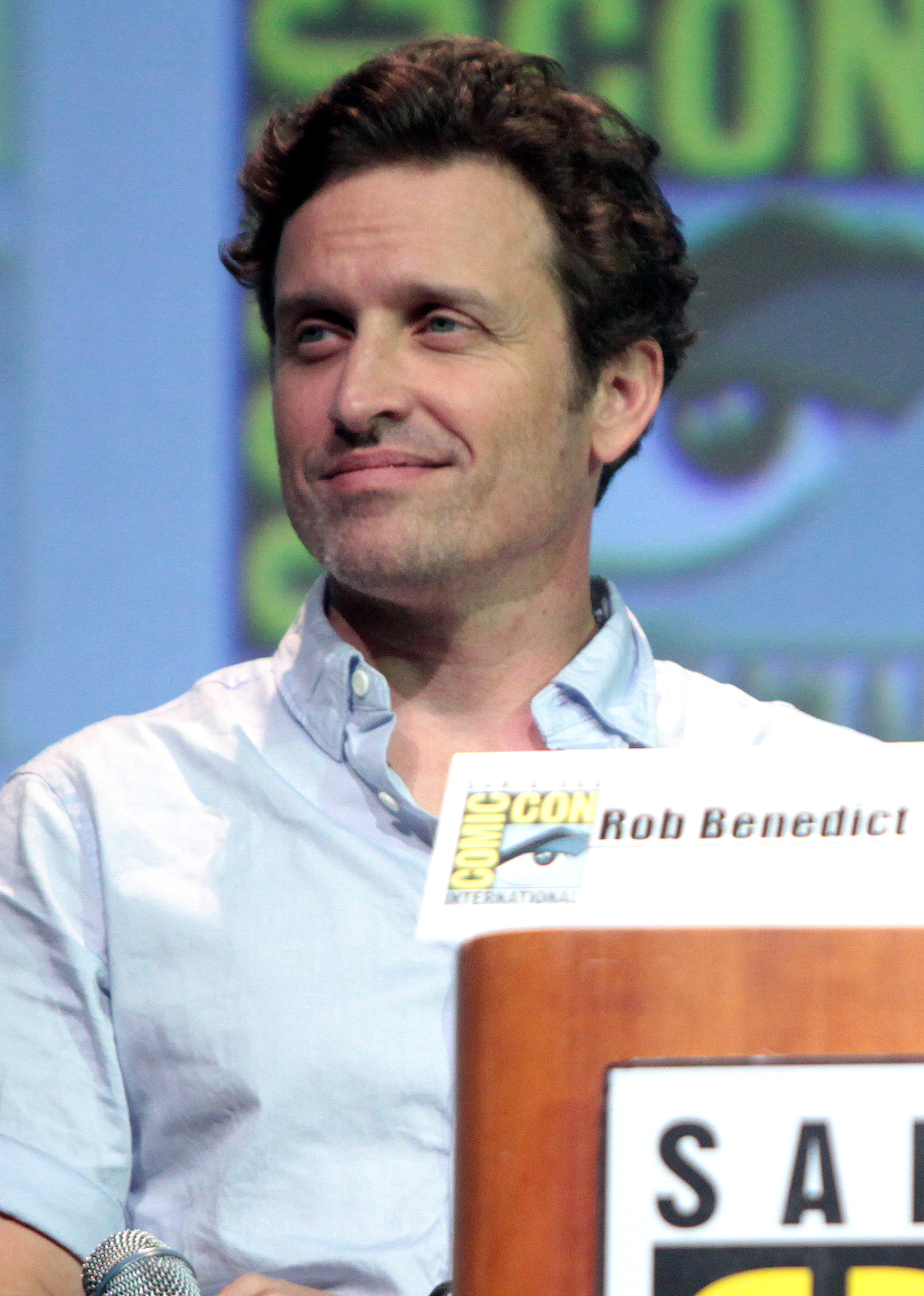 Rob Benedict at the 2015 San Diego Comic Con International in San Diego, California.